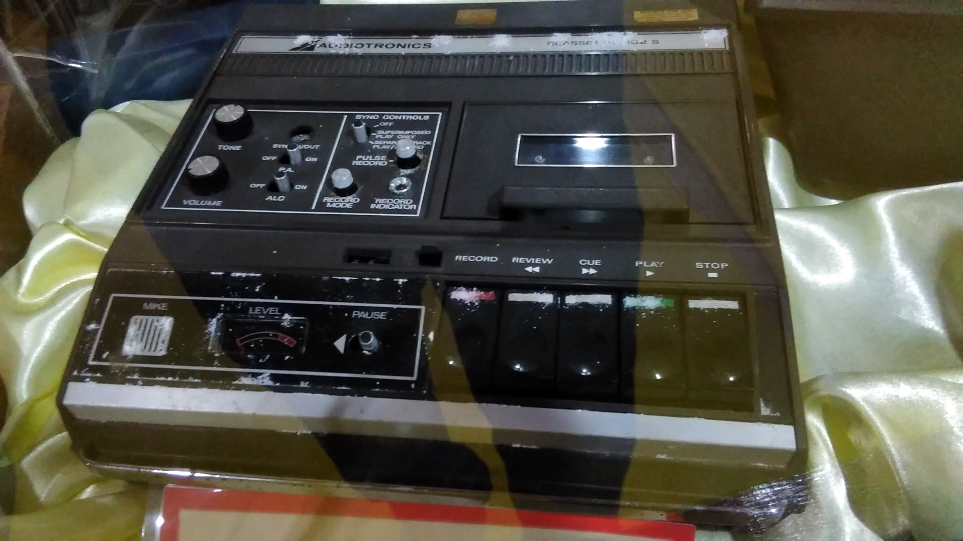 Classroom tape recorder by US-based Audiotronics brands, appropriately named the Classette, has some unusual controls in an otherwise ordinary, low-fi shell. Model 152S shown here seems to be very common - many currently offered on ebay.